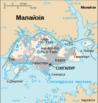 A map of Singapore from the CIA World Factbook with Ukranian labels.